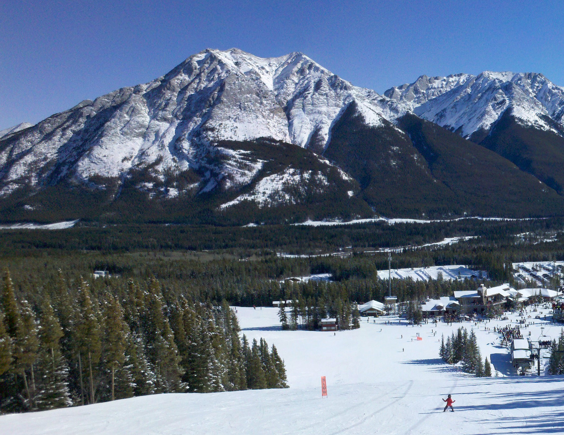 Wasootch Peak seen from Nakiska ski slopes, Alberta Canada